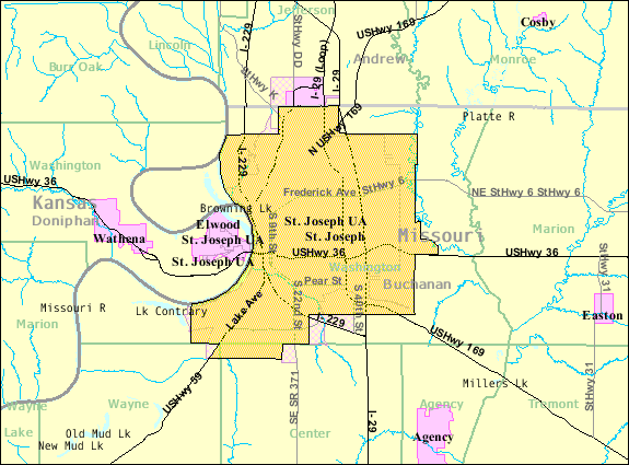 U.S. Census 2000 reference map for St. Joseph